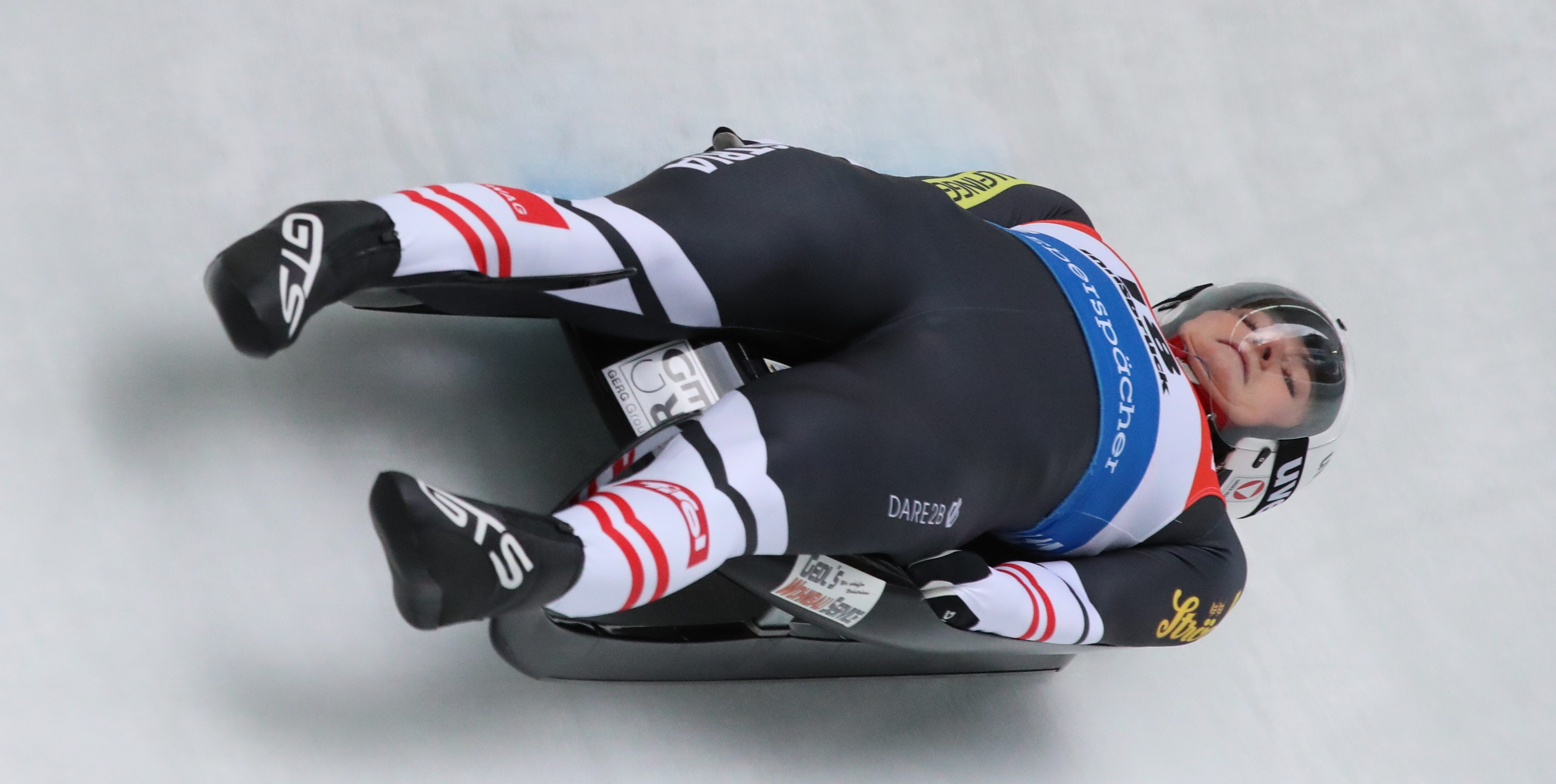 Women's World Cup race at the 2019/20 Luge World Cup in Innsbruck-Igls